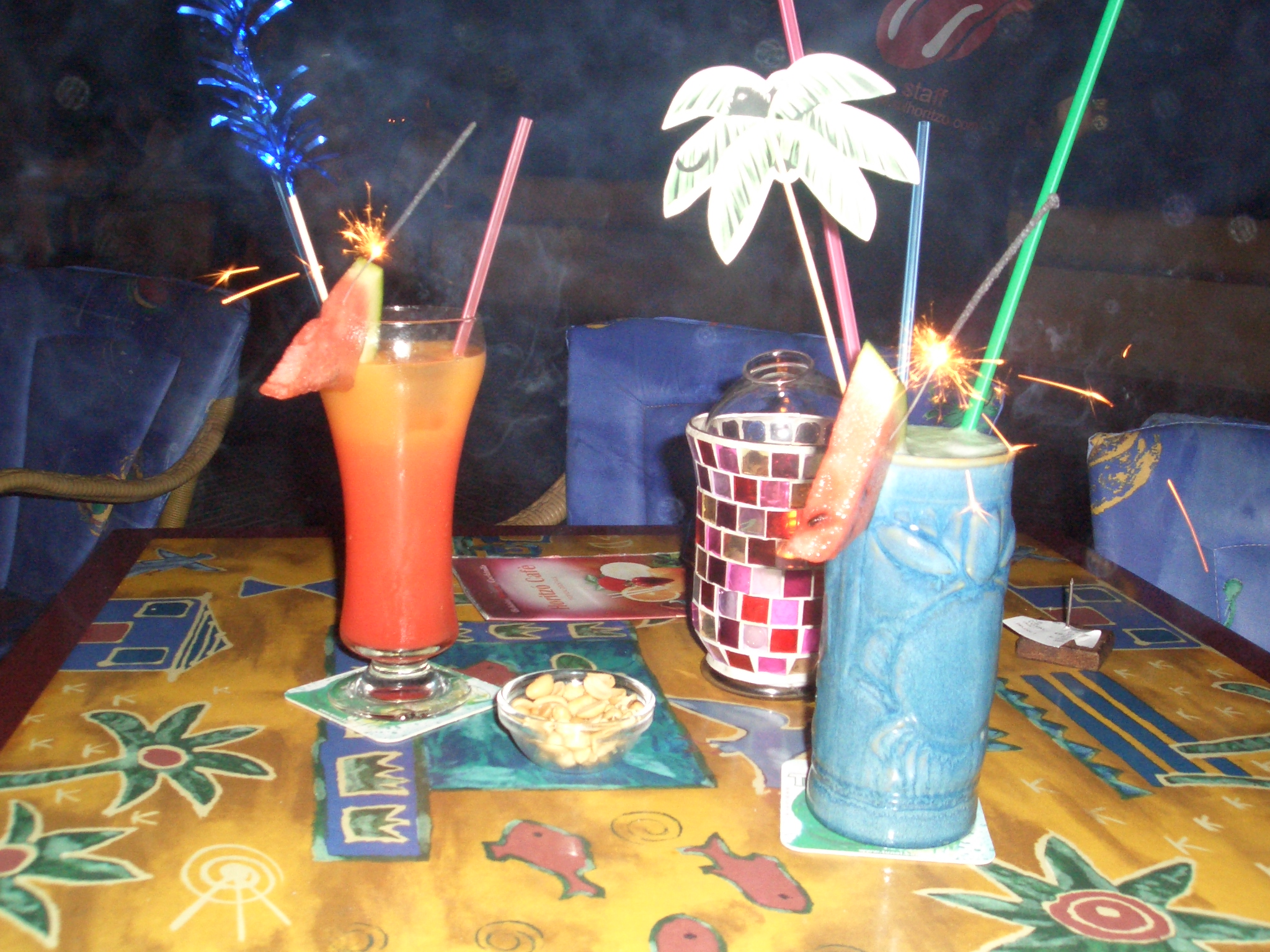 Cocktails: "Lecker." Included notes (left to right): Tequila Sunrise, Erdnüsse, sind hier Standard (in the bowl), Mai Tai, and a receipt for €4,50 und €4,75. (Mallorca, exs100, cocktails, canpicafort, Spain, spanien)